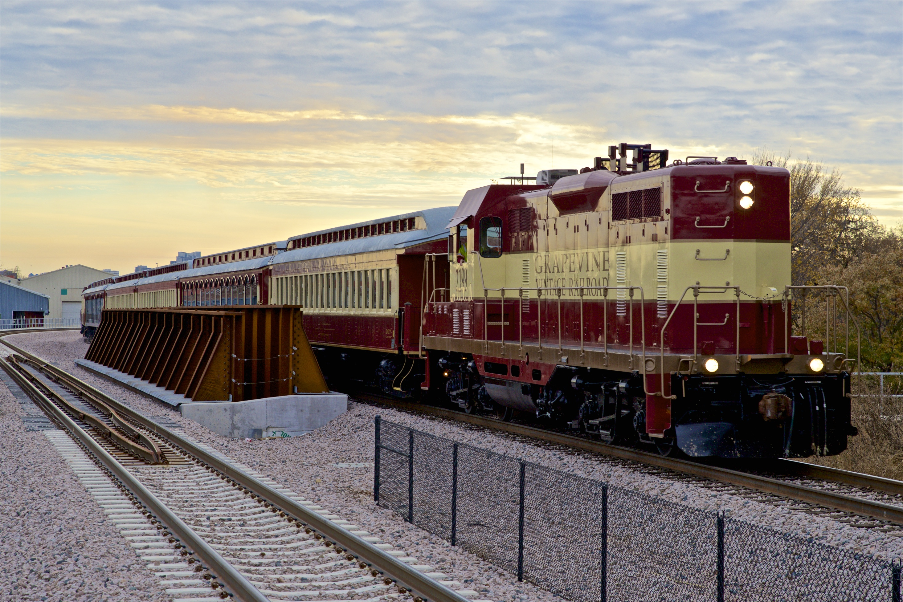 A Grapevine Vintage Railroad train passing by the North Side TEXRail station in Fort Worth, Texas (United States) in November 2019.